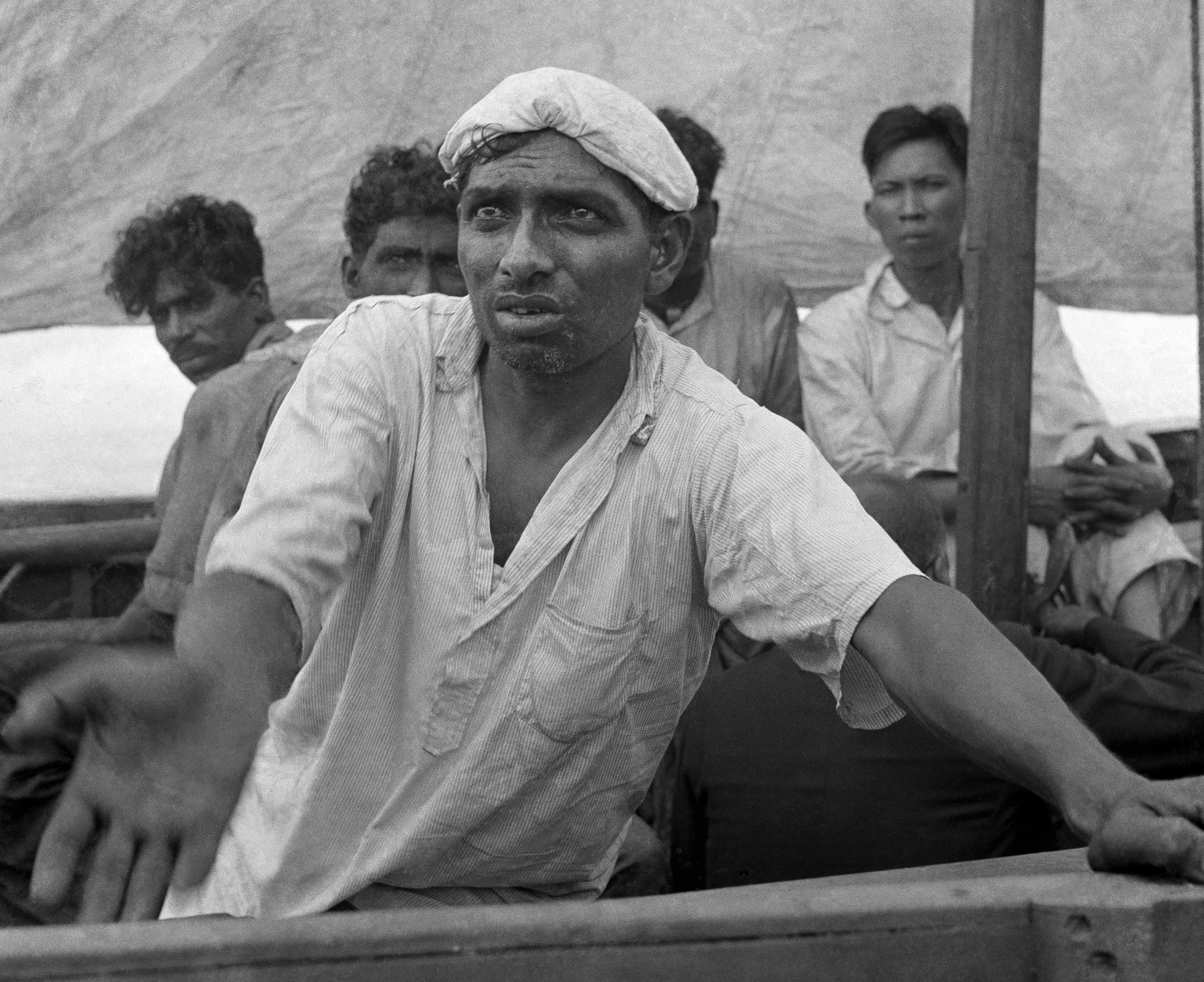 "Water!", a photograph of an Indian sailor on a lifeboat adrift in the Indian Ocean, pleading for water. Photograph was taken in January 1942 but not published until April 1942. Winner of the 1943 Pulitzer Prize for Photography.